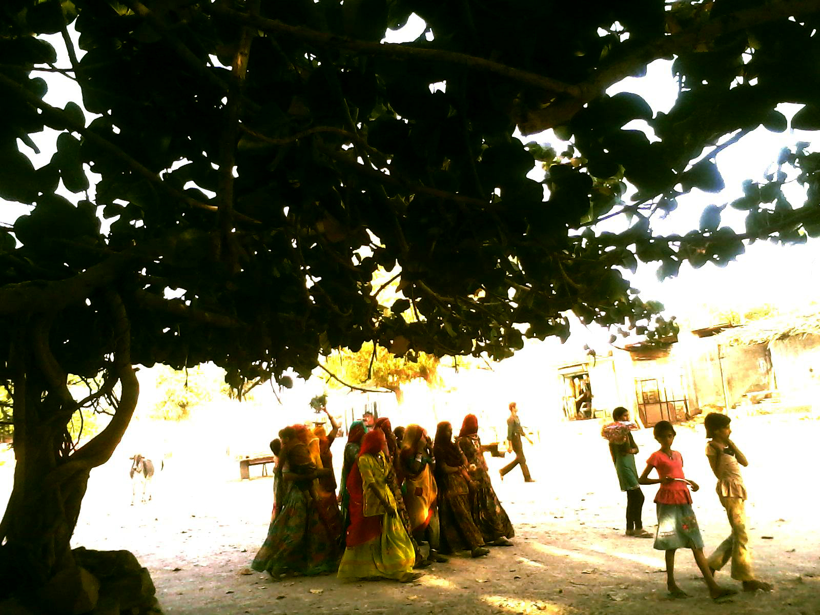 Jalawaa Pujan is ritual performed just after naming a new born boy